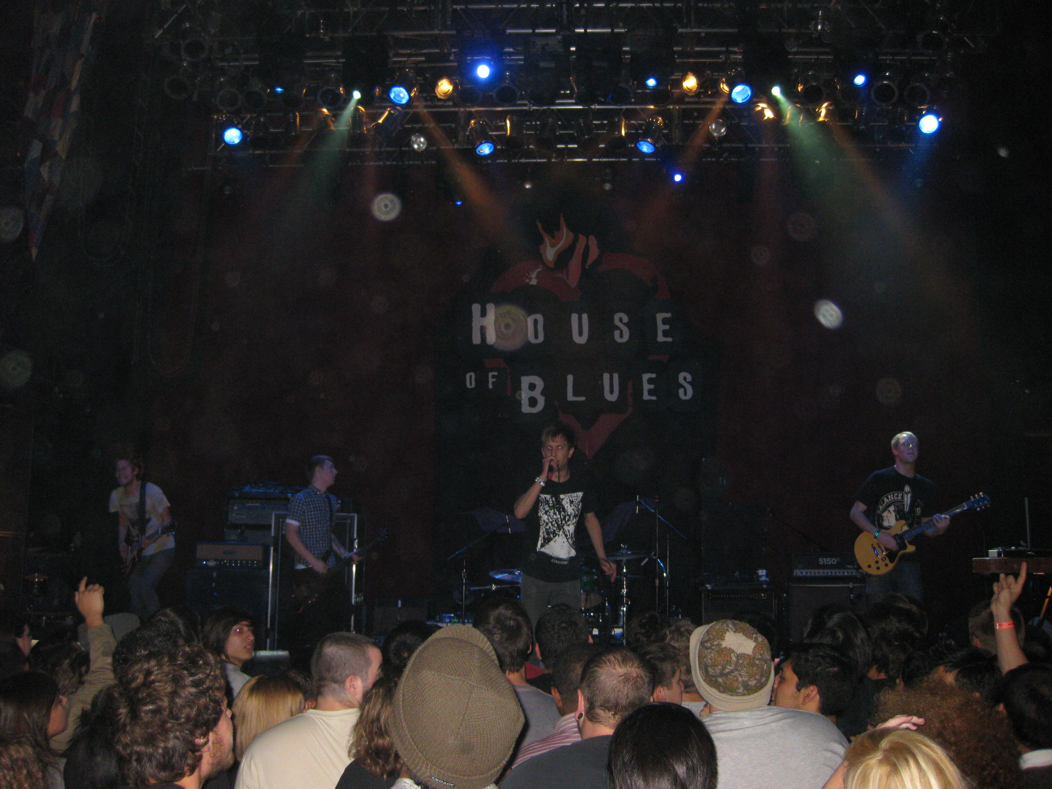 La Dispute performing November 11, 2011 at the House of Blues in San Diego, California. Left to right: guitarist Chad Sterenberg, bassist Adam Vass, singer Jordan Dreyer, and guitarist Kevin Whittemore. Drummer Brad Vanger Lugt is not visible behind Dreyer.